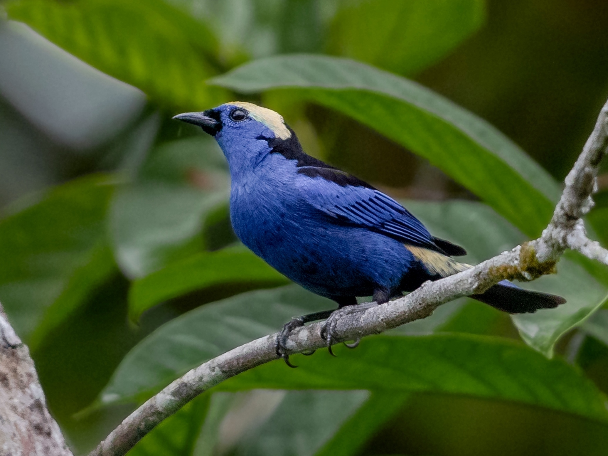 Opal-crowned Tanager; Serra do Divisor National Park, Acre, Brazil